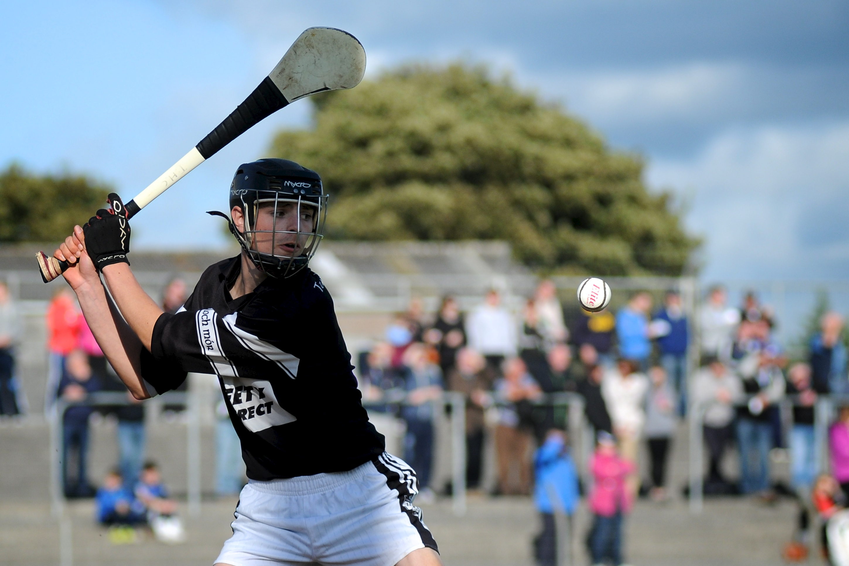 Sean Loftus in action for Turloughmore in the 2013 Galway Senior Hurling Championship